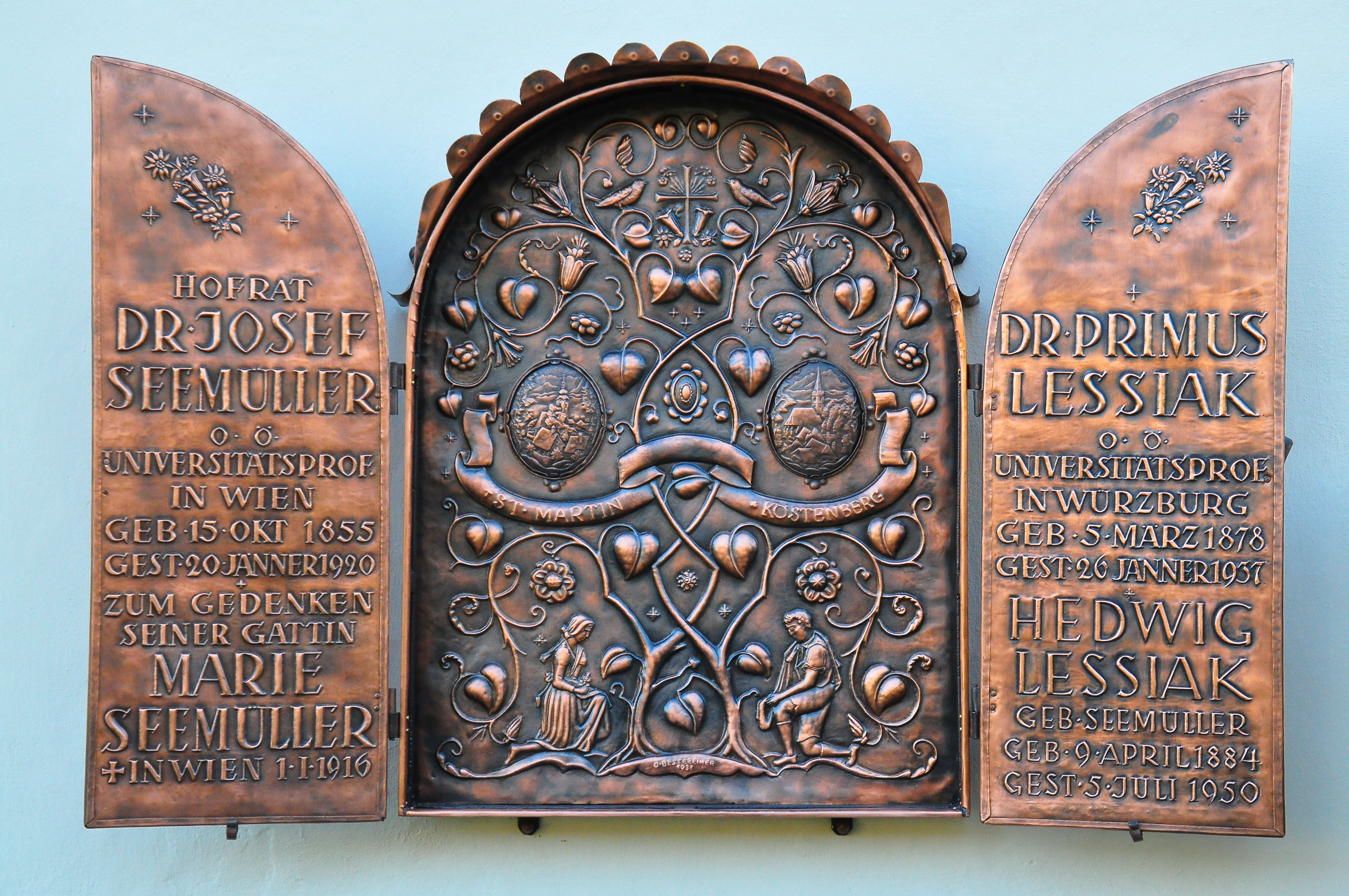 Memorial tablet for the Carinthian philologist Dr. Primus Lessiak at the vestibule of the parish church Saint Martin, 12th district “Saint Martin” of Klagenfurt, Carinthia, Austria